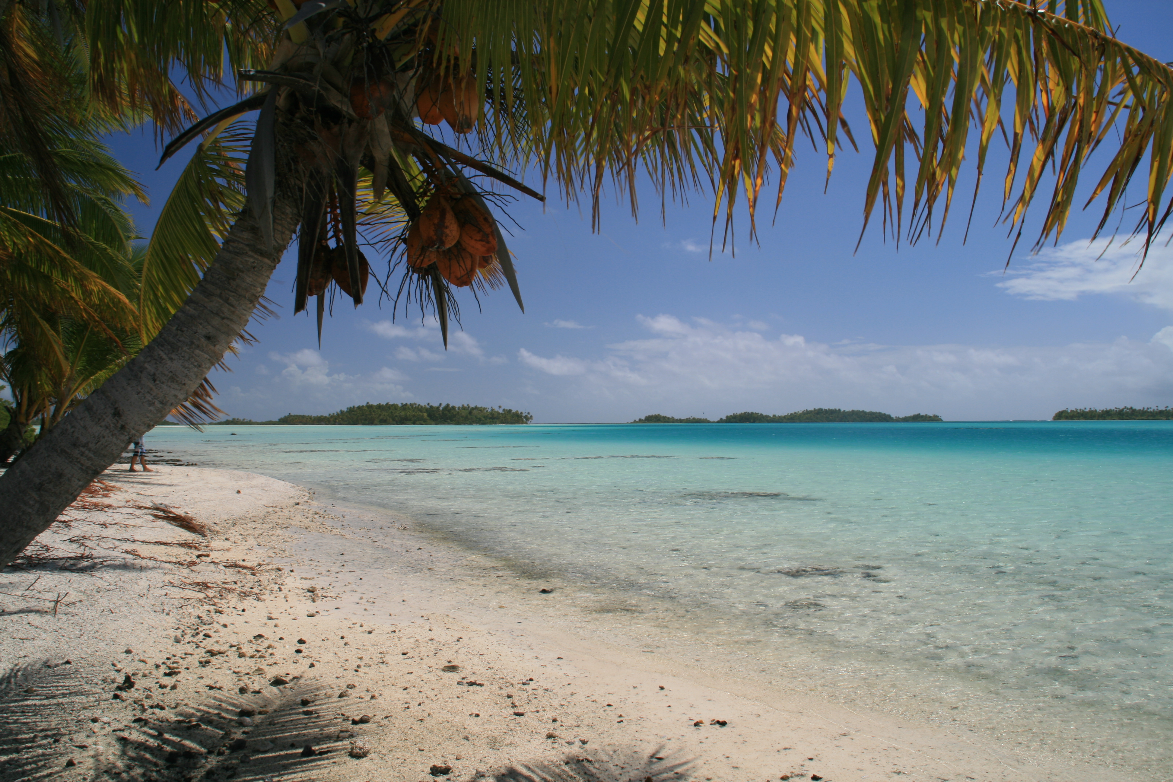 Coconut tree, blue lagoon rangiroa